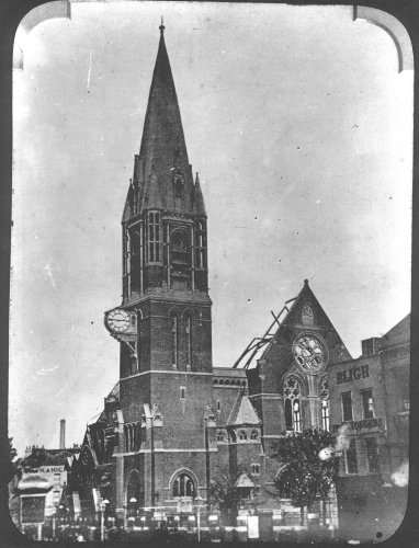 The parish church of St Mary Matfelon, Whitechapel Road, London E1, after it had been gutted by fire in 1880